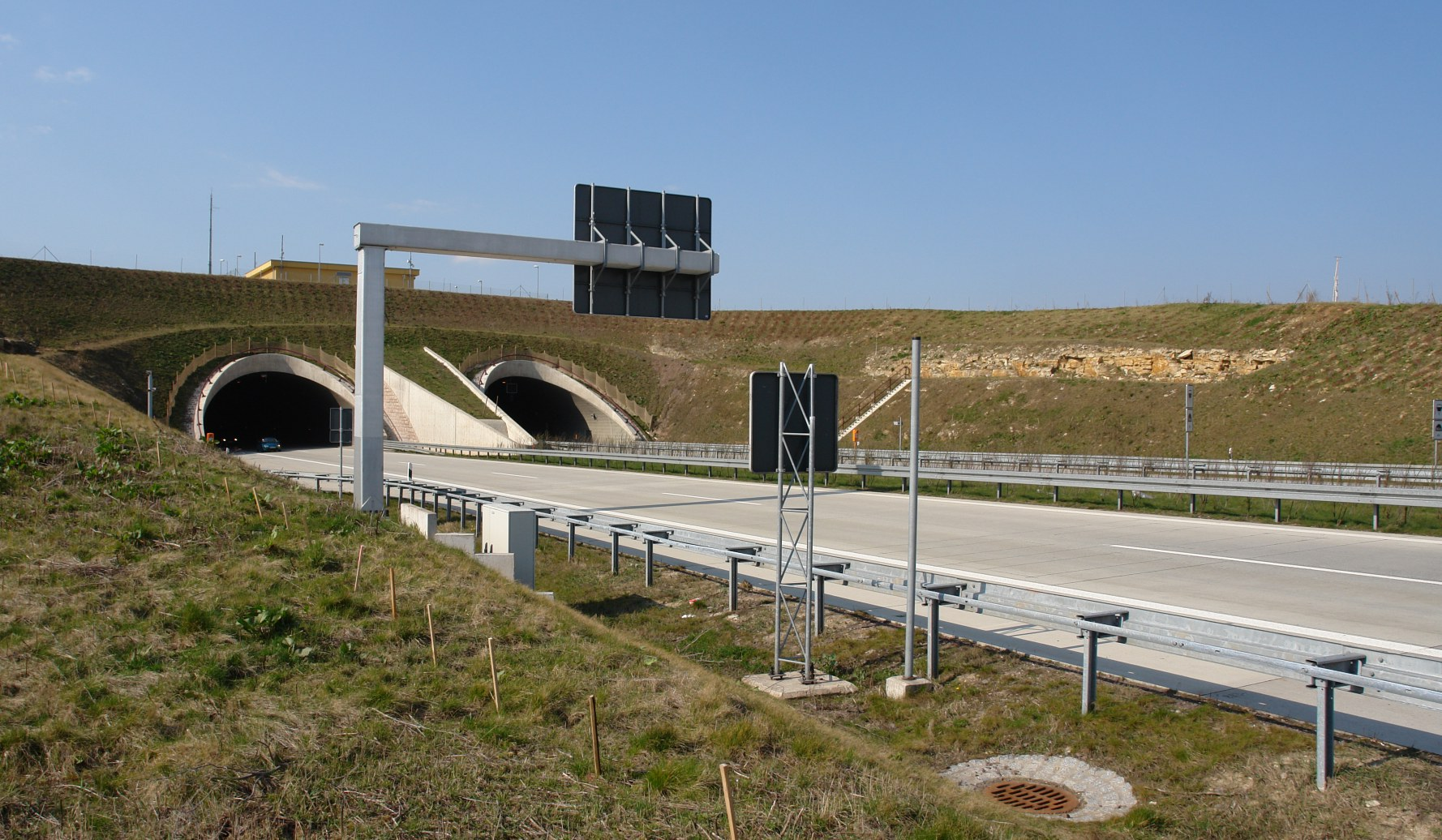 Coschütz Tunnel of the german Autobahn 17. Eastern exit entrance in Dresden-Kaitz.